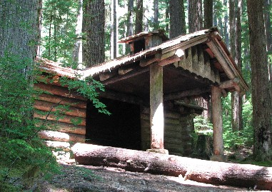 Rustic trail shelter at Sol Duc Falls, Olympic National Park, Washington, United States.